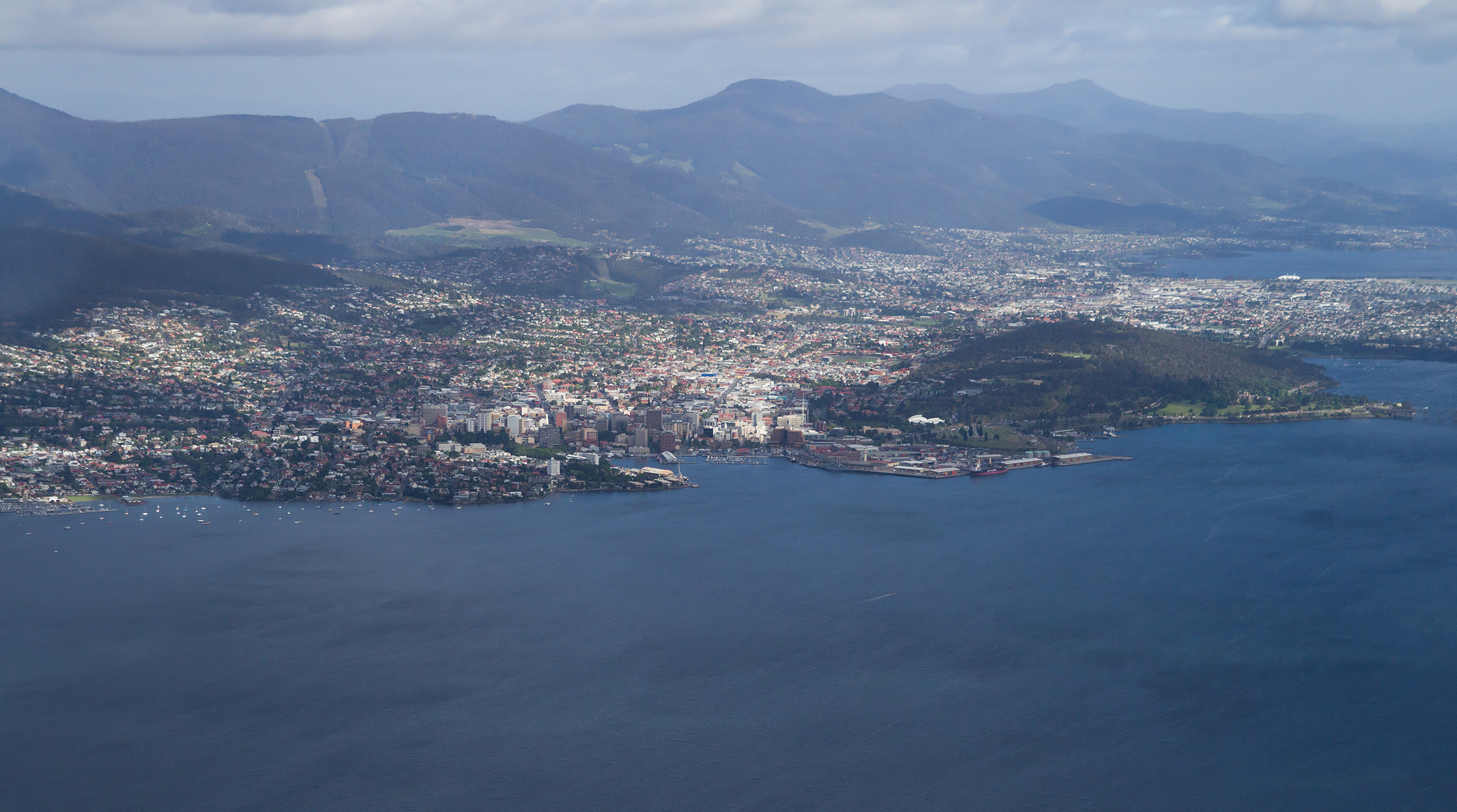 Hobart from the air, Tasmania, Australia